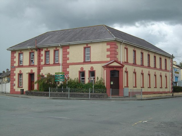 Castleisland Courthouse and Carnegie Library The Carnegie Trust Library Building which was designed by R.M. Butler in 1920 was located at the eastern end of Castleisland's main street and burned to the ground in the same year. It was subsequently rebuilt on the same site and still functions as the town library. That is until the new library at the western end of the town takes over later this year (2007)